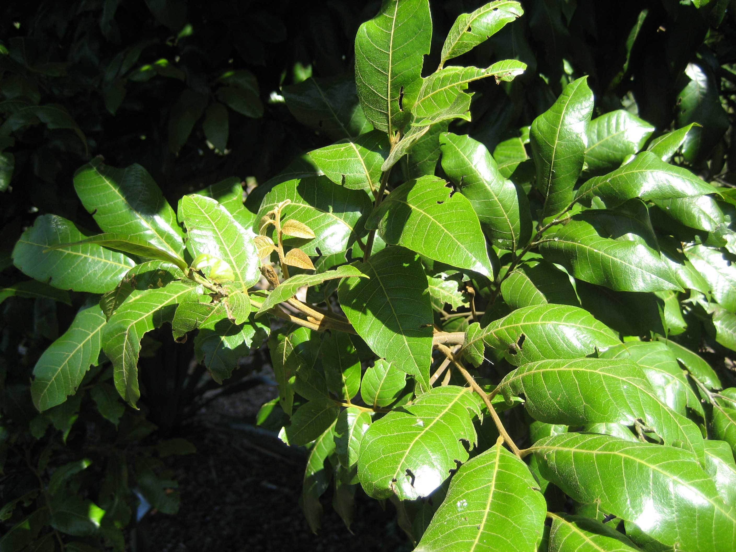 Foliage of Titoki, Alectryon excelsus subsp. excelsus